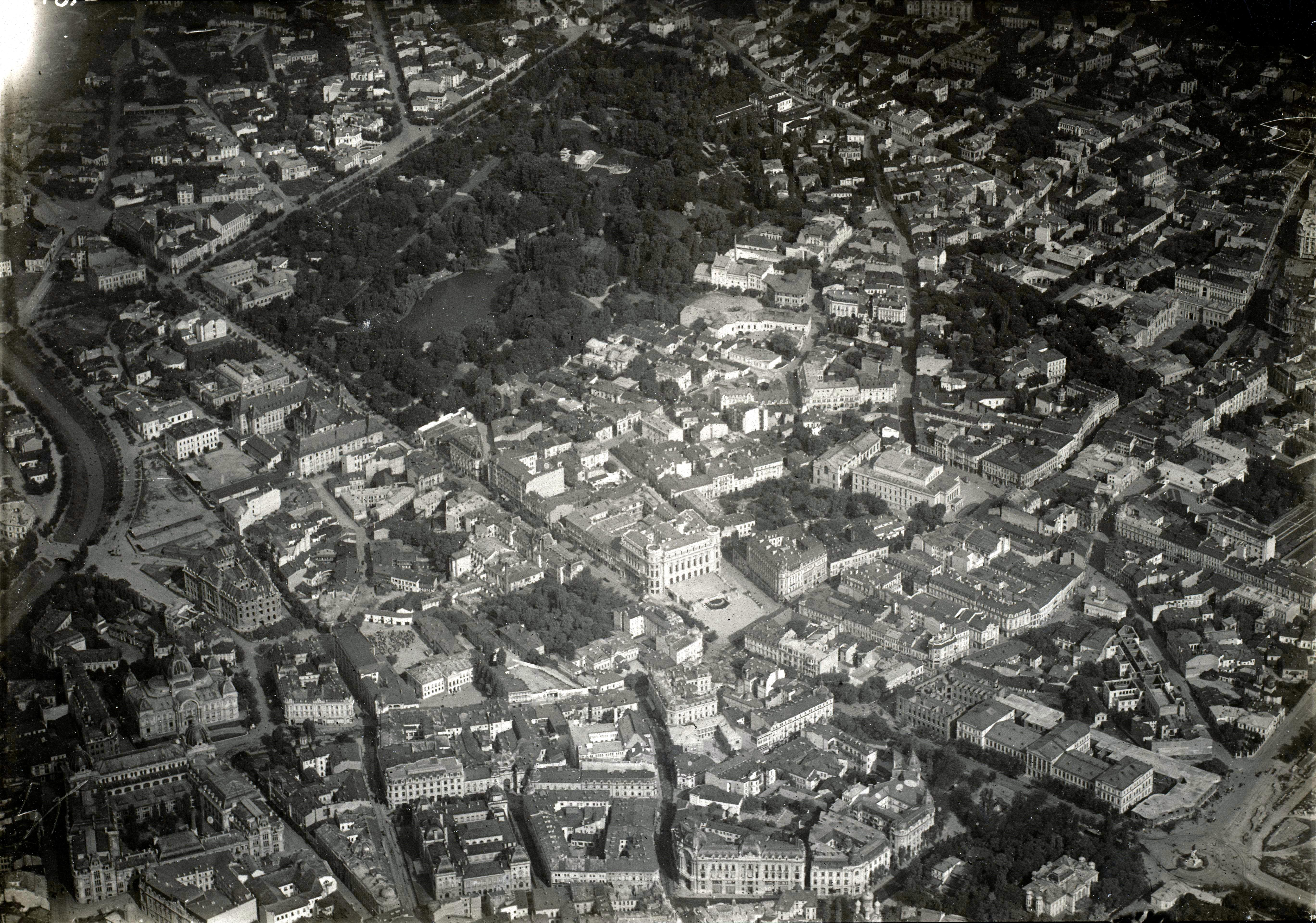 Panorama of Bucharest, taken most probably from a zeppelin of the German Empire in reconnaissance, presumably before the Battle of Bucharest (Nov-Dec 1916).